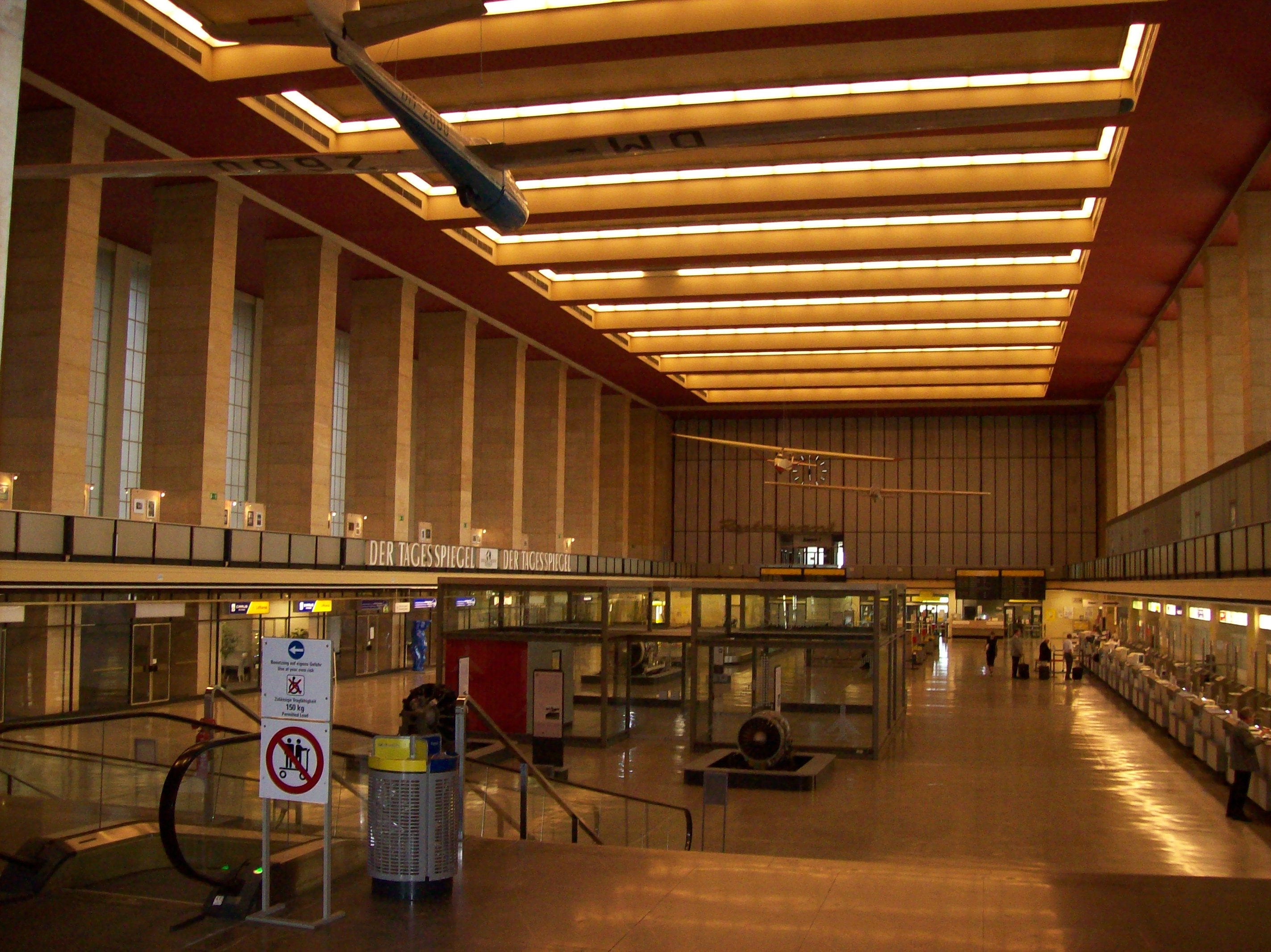 Check-in counters, Berlin Tempelhof Airport in 2007